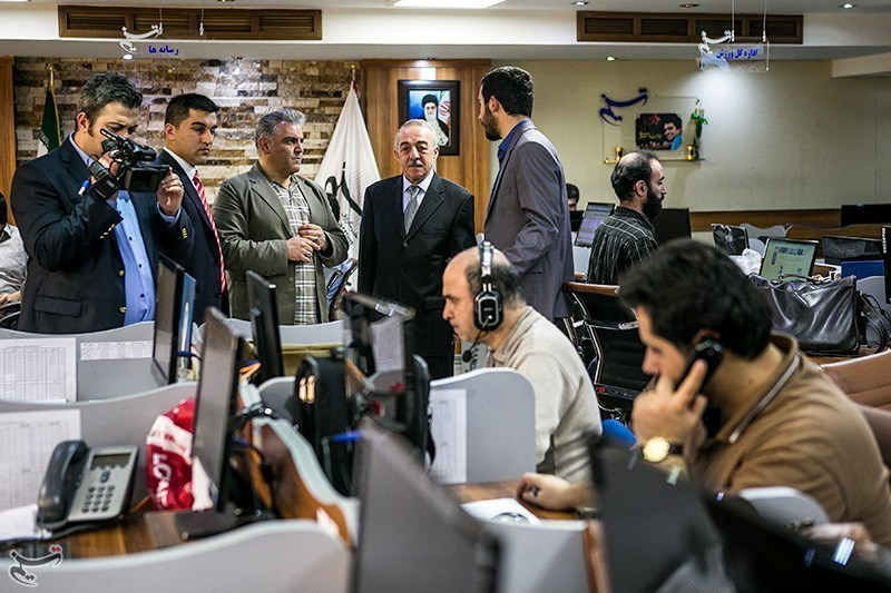 Newsroom (Tasnim News Agency Turkish service)